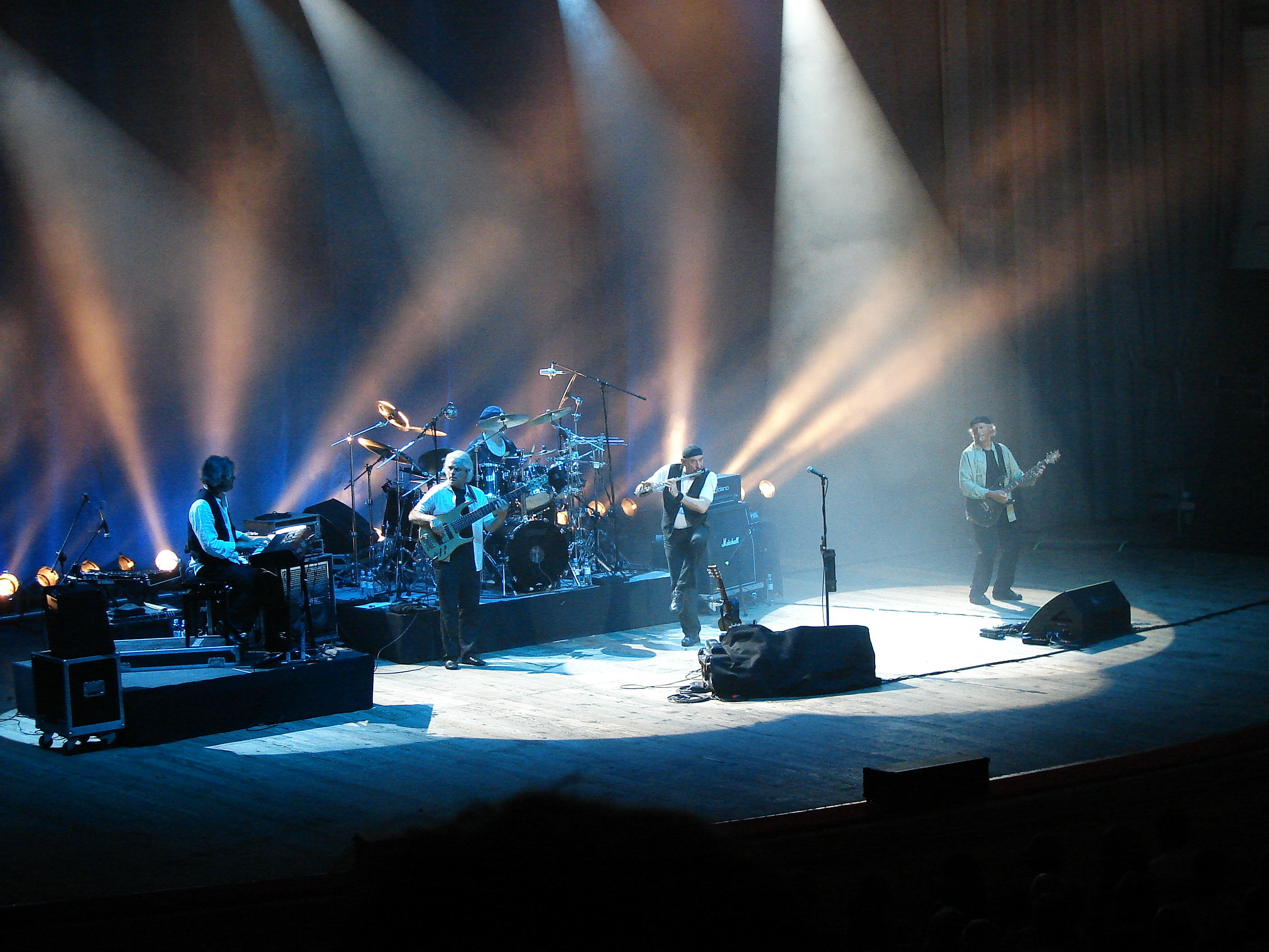 Jethro Tull concert in Warsaw - 01-09-2009